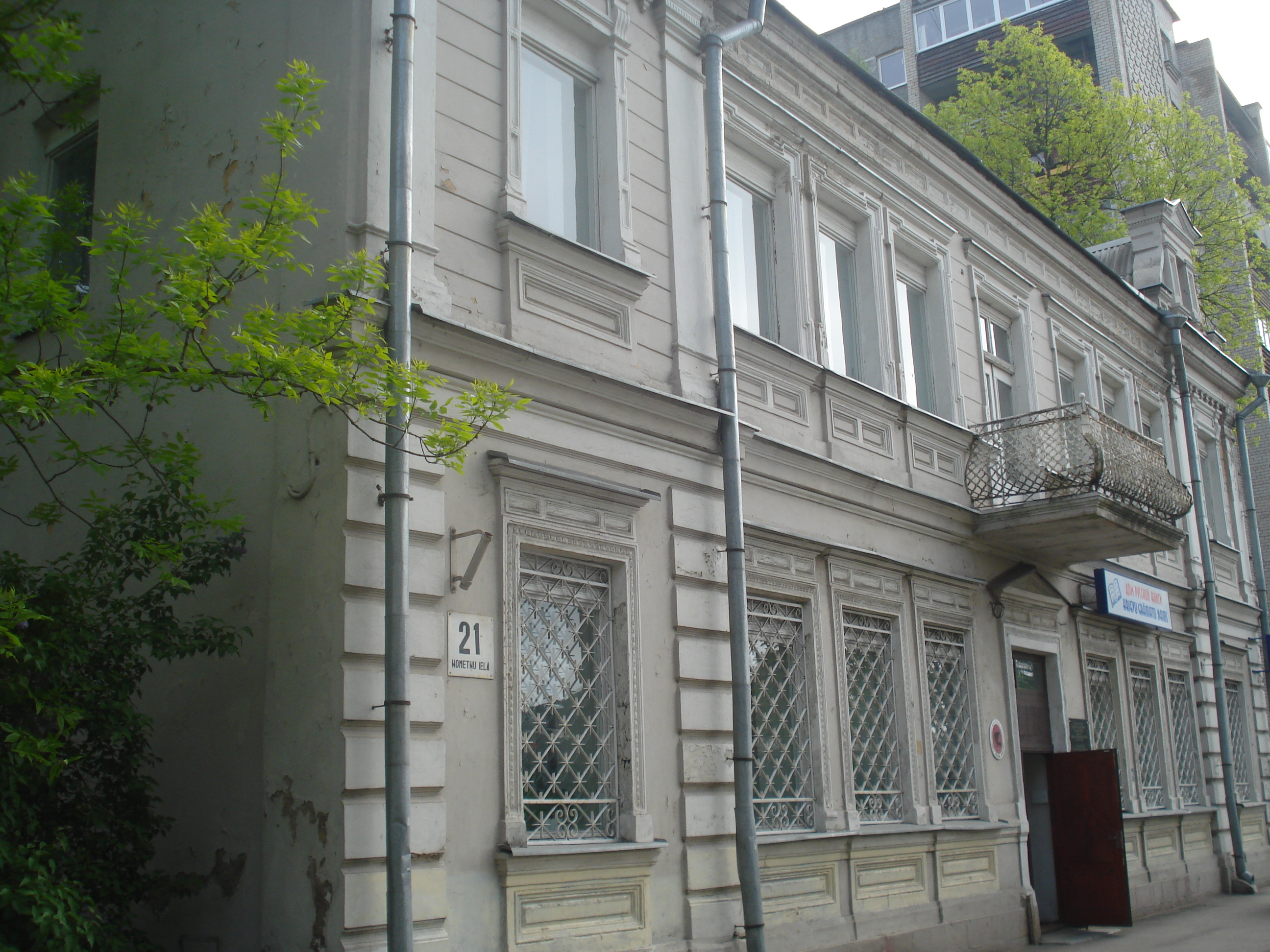 The House of Melety Kallistratov (1896-1941), the most prominent Russian politician in Latvia between the wars. Daugavpils, Nometņu iela 21 (Center for Russian Culture)